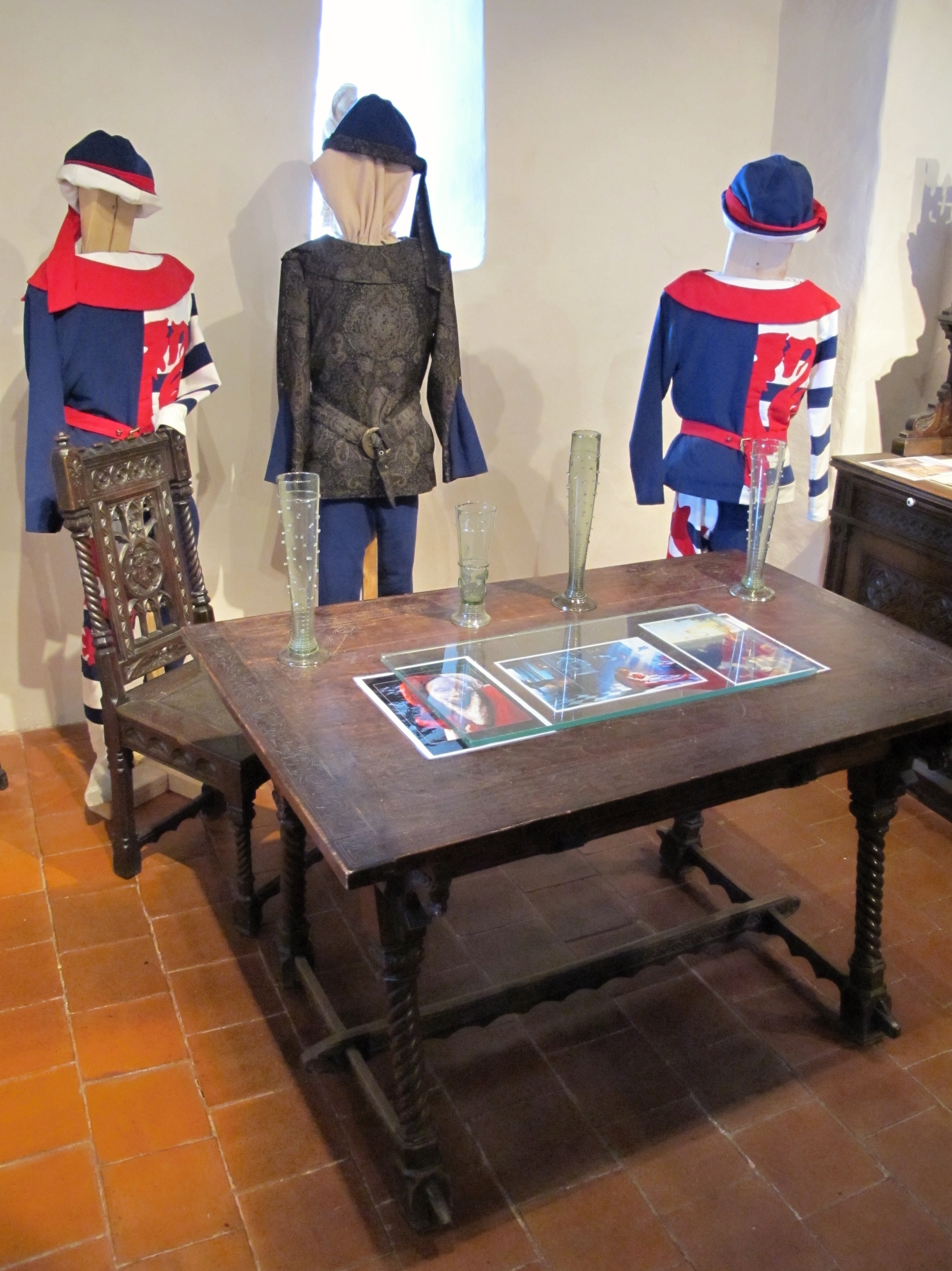 Kašperk Castle near Kašperské Hory; nature park Kašperská vrchovina, Klatovy District in Czech Republic